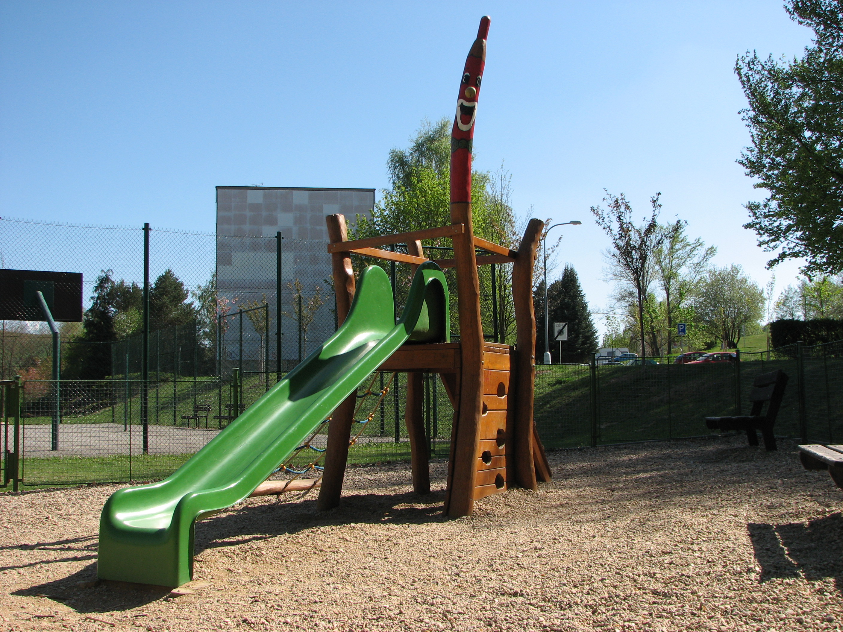 A playground slide